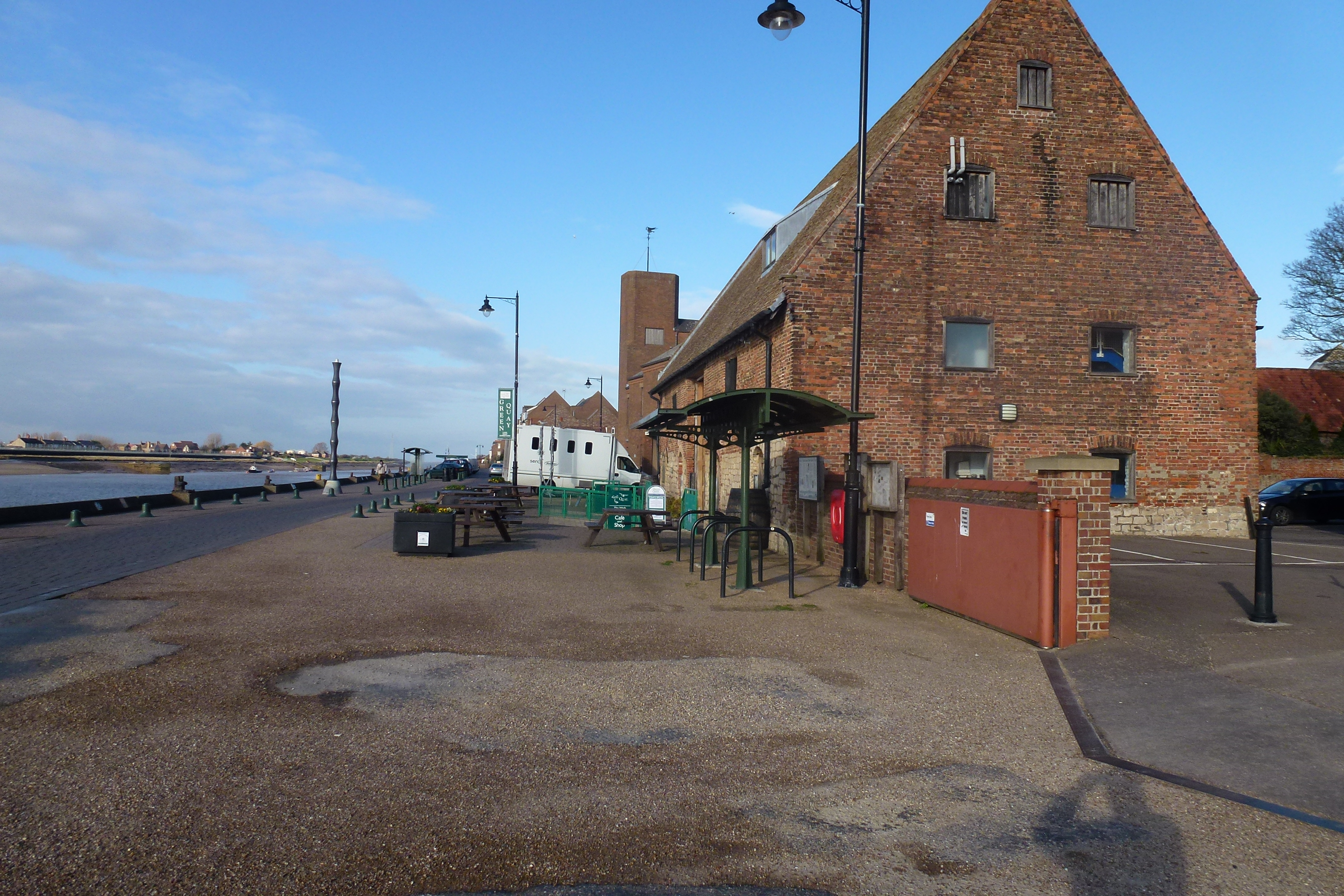 Old sixteenth century waterfront merchant's warehouse, now a restaurant and information centre.